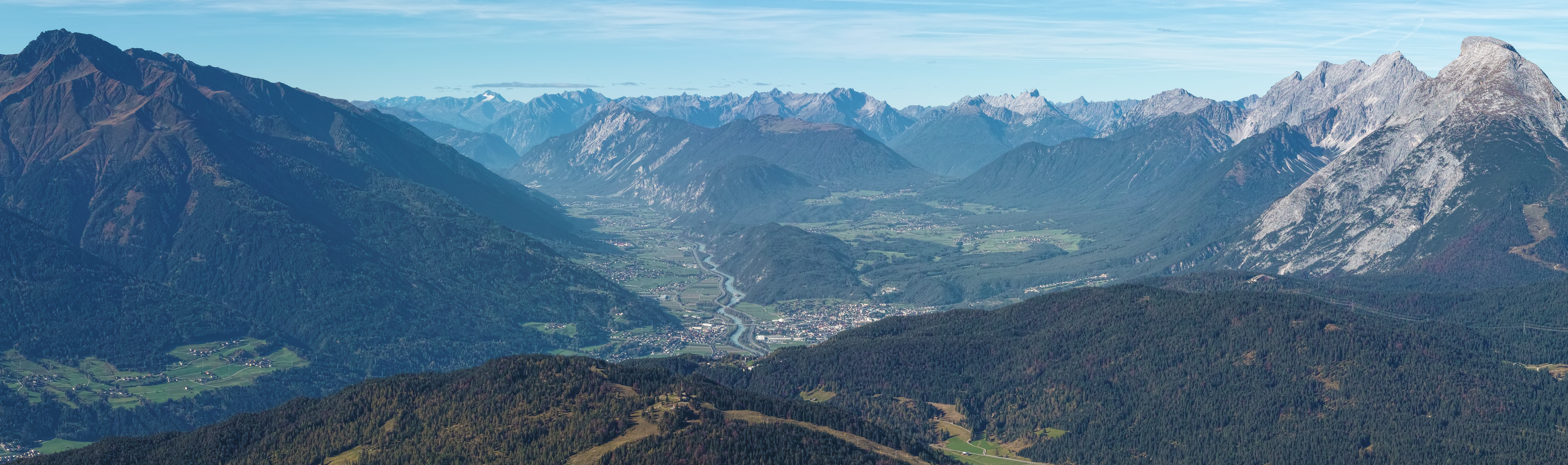 The Oberinntal ("upper Inn valley") in Austria from east on October 18, 2014.